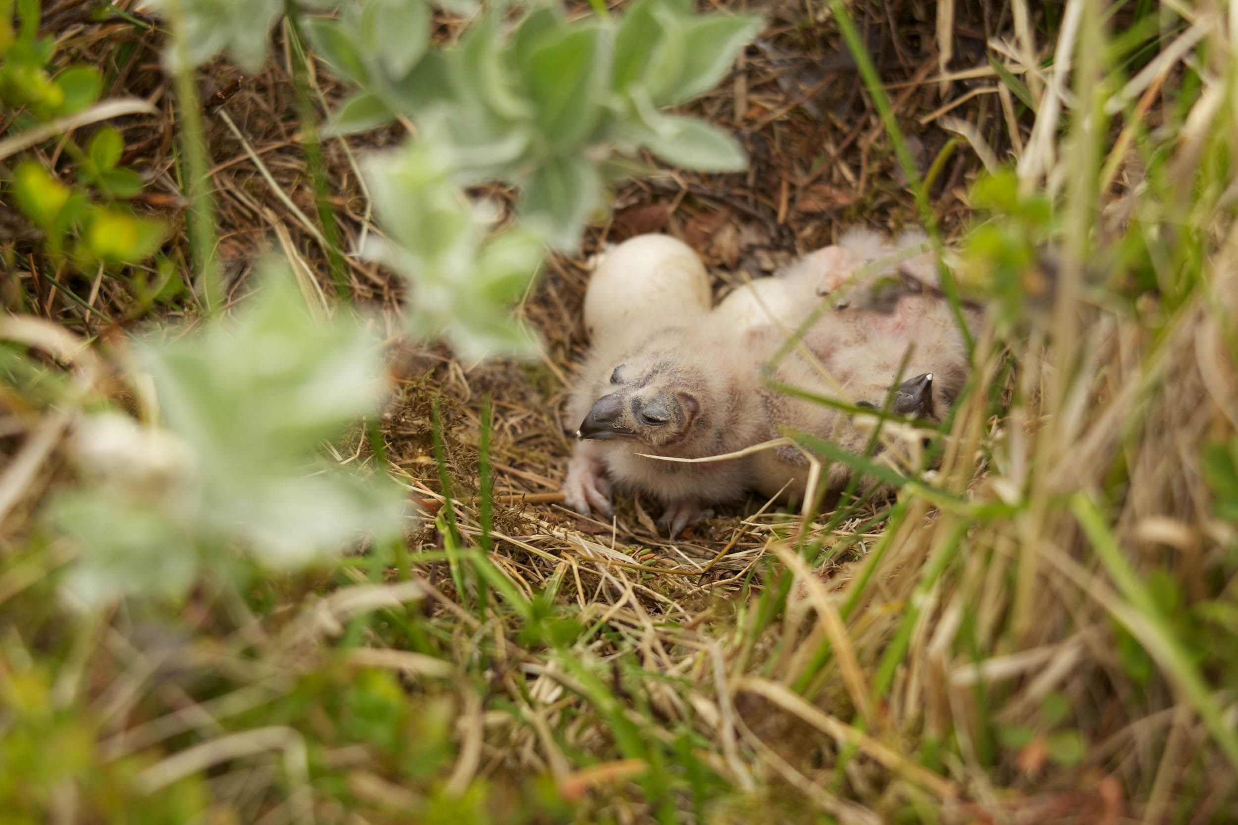 Brandugla Asio flammeus Short-eared Owl, newly-hatched nestlings and egg, Iceland.